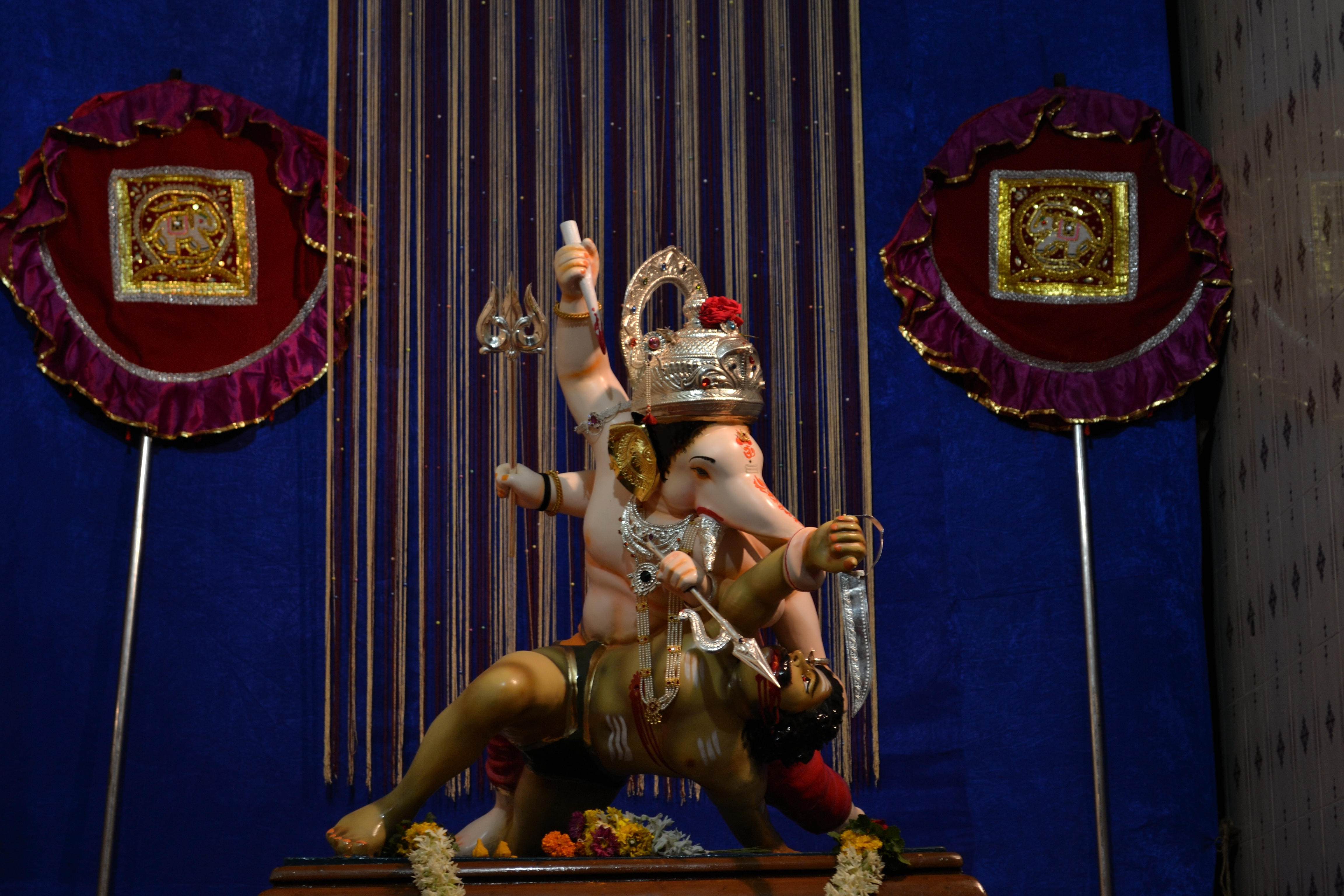 .THIS IS THE FIRST GANESHUTSAV MANDAL ALL OVER INDIA. IN FACT THE FOUNDER OF THIS MANDAL WAS INITIALLY STARTED GANESHUTSAV IN 1892. NAMED SHRIMANT BHAUSAHEB RANGARI.